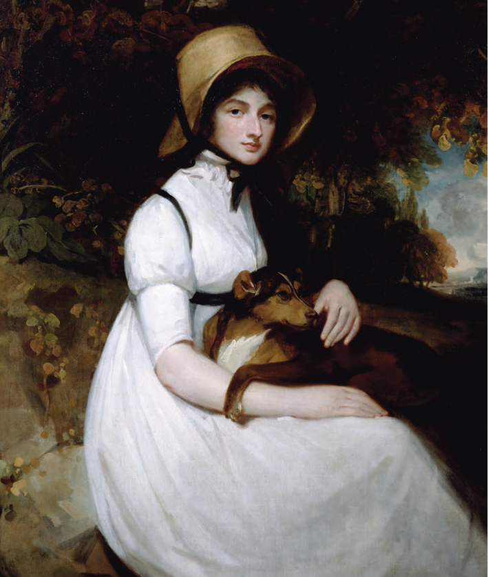 Portrait of Henrietta Anne le Clerc (1773-1846), an illegitimate daughter of Charles Lennox, 3rd Duke of Richmond, 3rd Duke of Lennox, 3rd Duke of Aubigny (1735-1806), by his French mistress Gabrielle d'Aldace-Hénin-Liétard (d.1808), (Vicomtesse de Cambis). Collection of the Duke of Richmond, Goodwood House, Sussex.